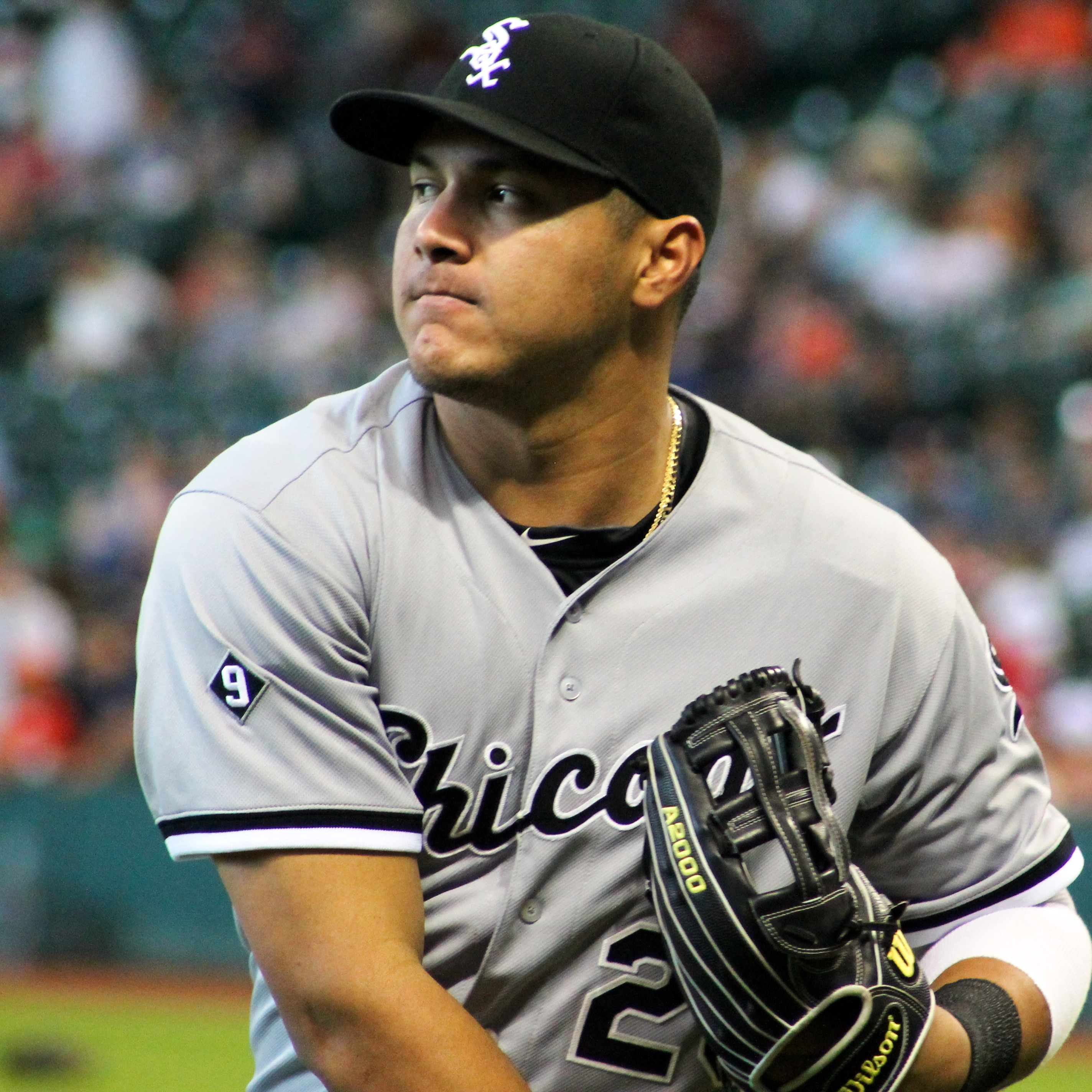 Professional baseball player Avisail García warms up before a 2015 game in Houston at Minute Maid Park.